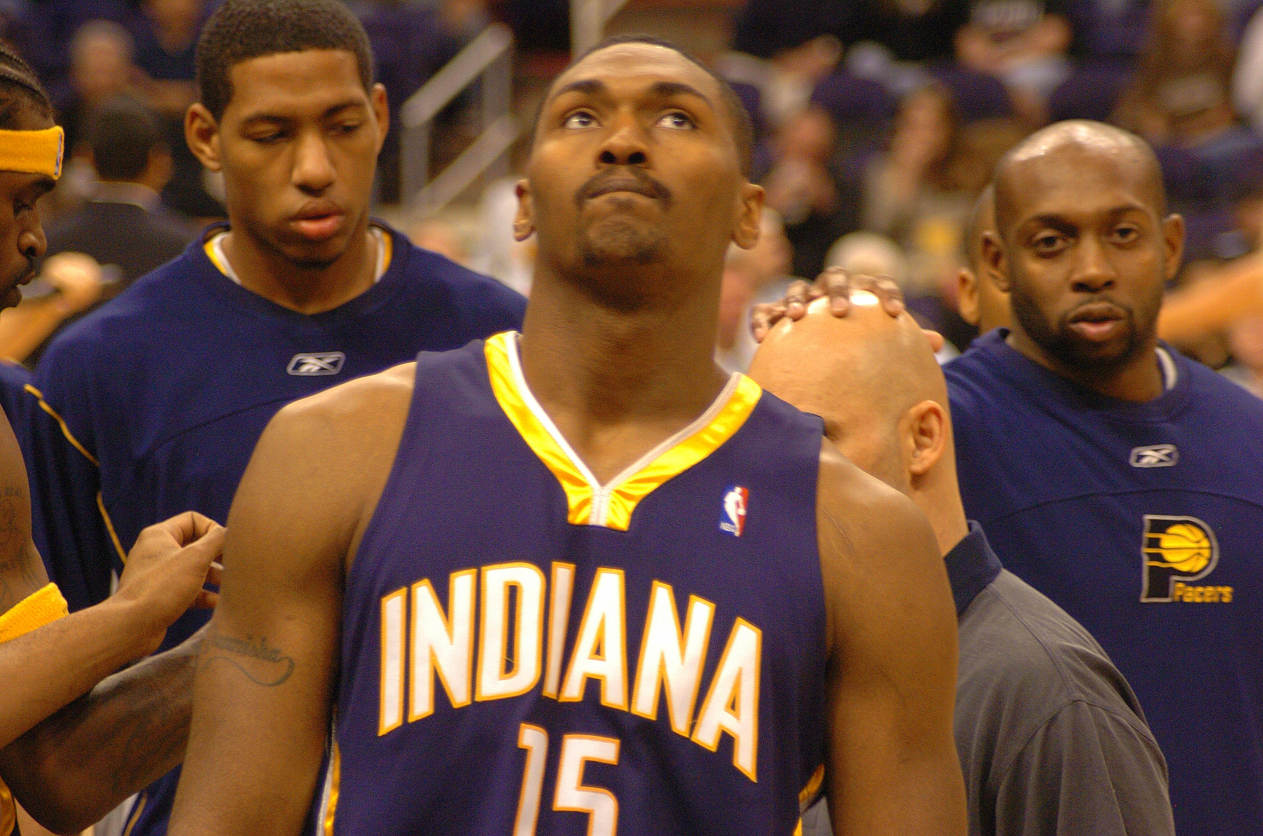 L-R: Danny Granger, Ron Artest, and Anthony Johnson of the Indiana Pacers during a time-out